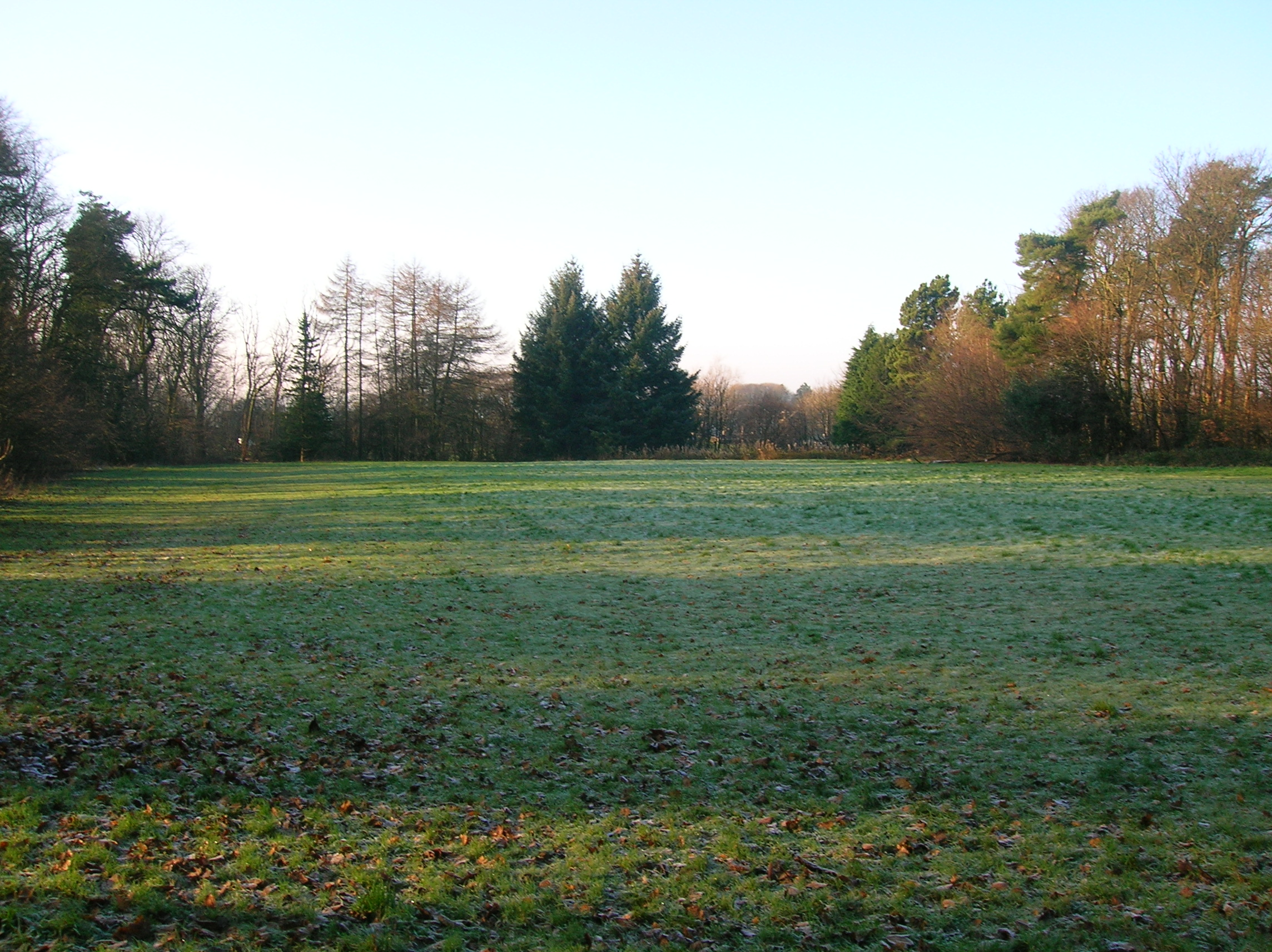 The old Hockey Pitch site, Speirs School, North Ayrshire, Scotland.